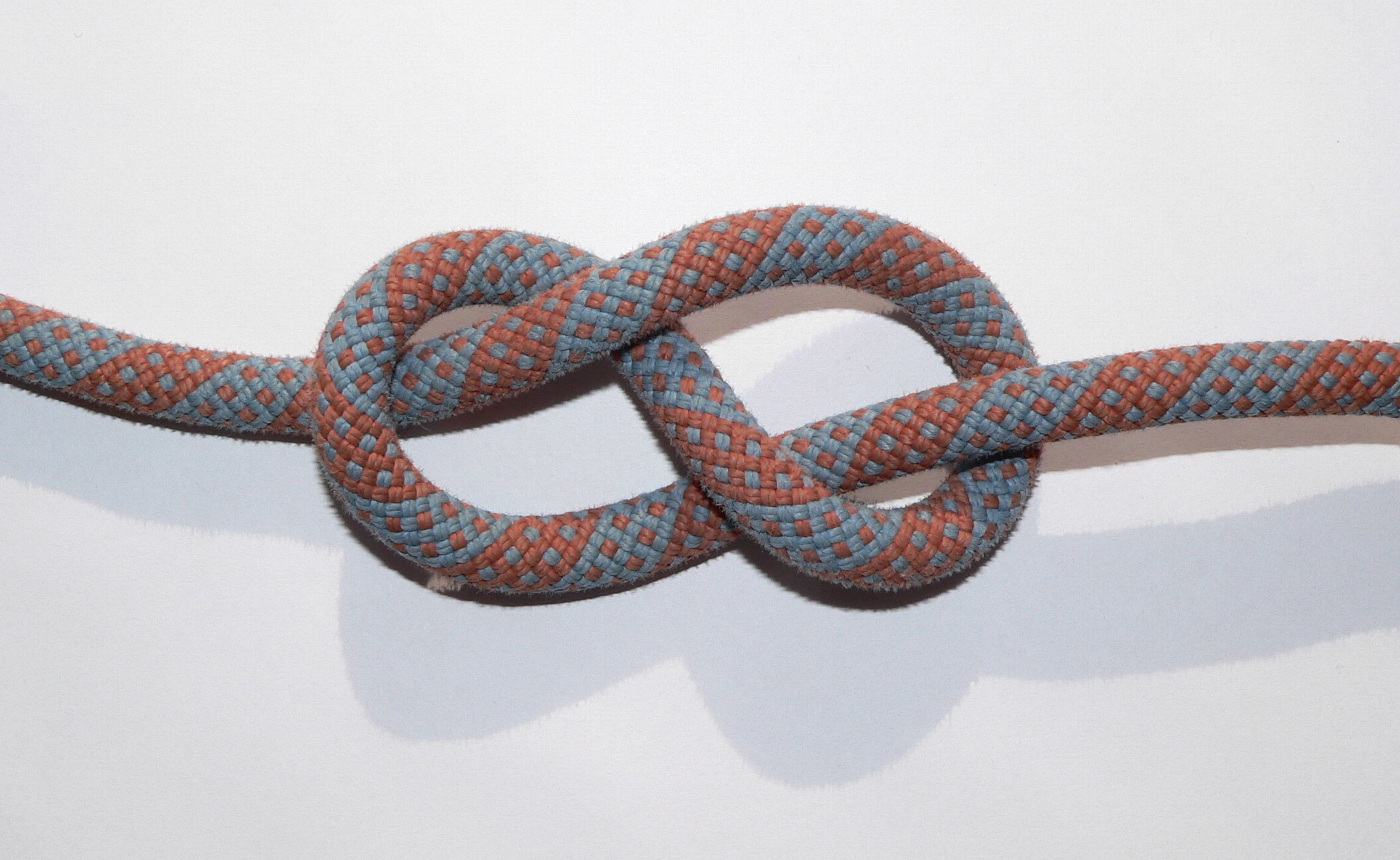 Figure-eight knot.